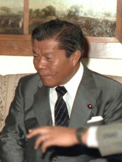 Minister of State for Science and Technology of Japan, Ichiro Nakagawa.